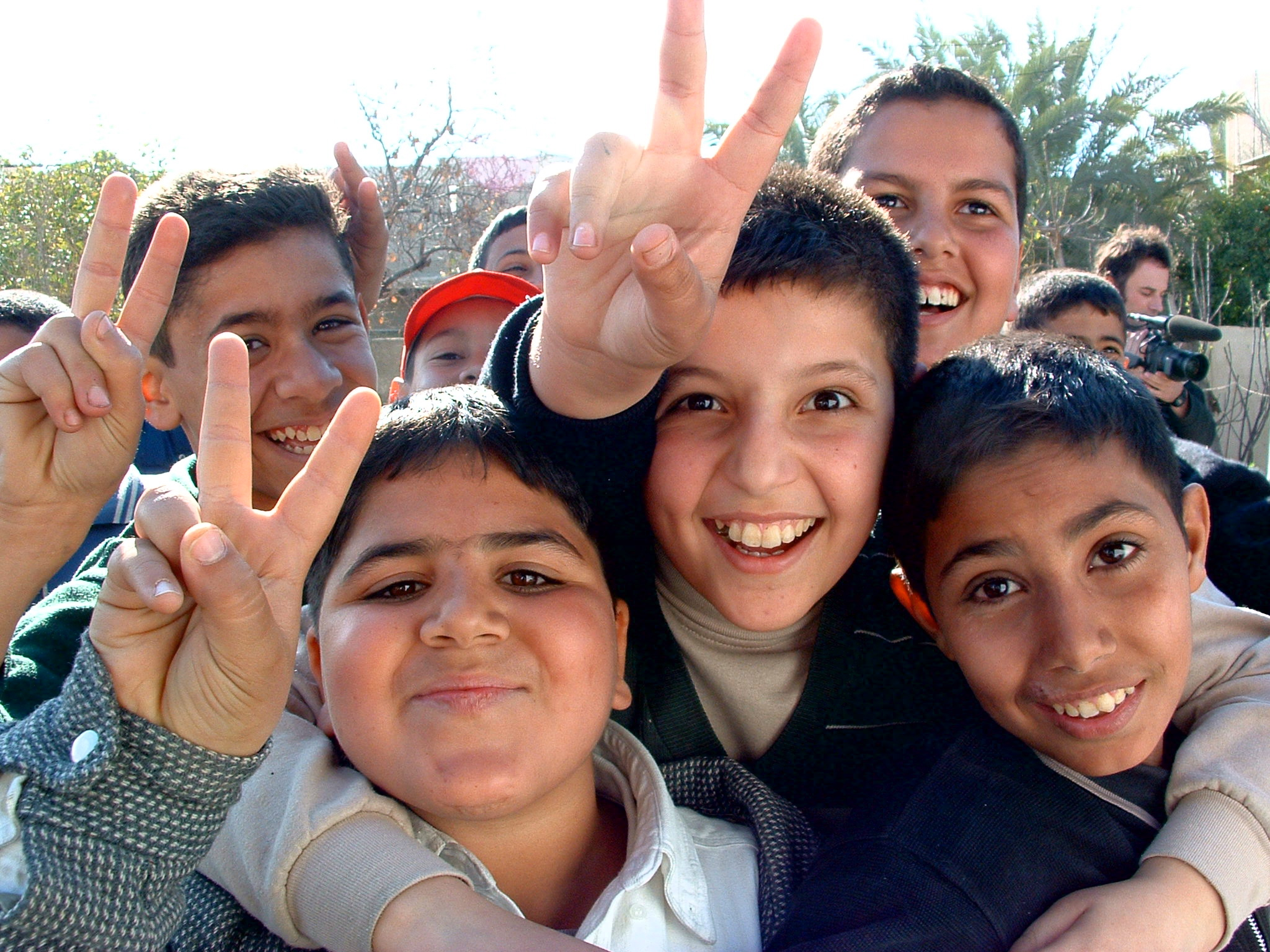 Iraqi boys giving peace sign Iraqi boys giving peace outside the Amiriya bomb shelter memorial in Baghdad.